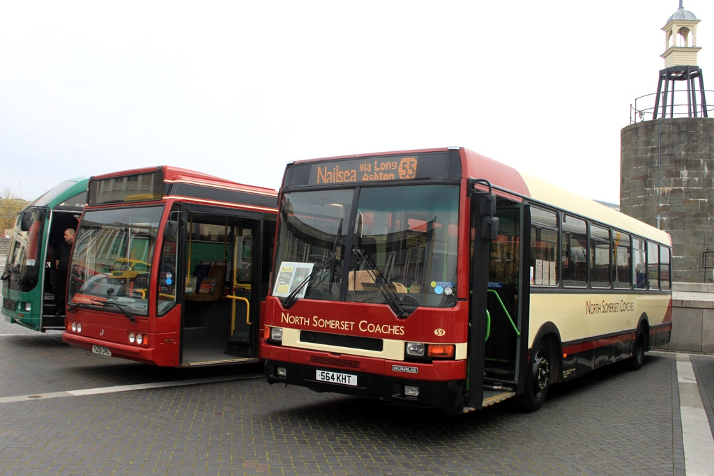 Two buses from the North Somerset Coaches fleet at the Bristol Harbourside Bus Rally in 2013. Nearest the camera is 564KHT, a Scania SB220-powered Ikarus Citybus 480 which was originally registered L510EHD. On the left is Y251DRC, an Optare Excel L1150.